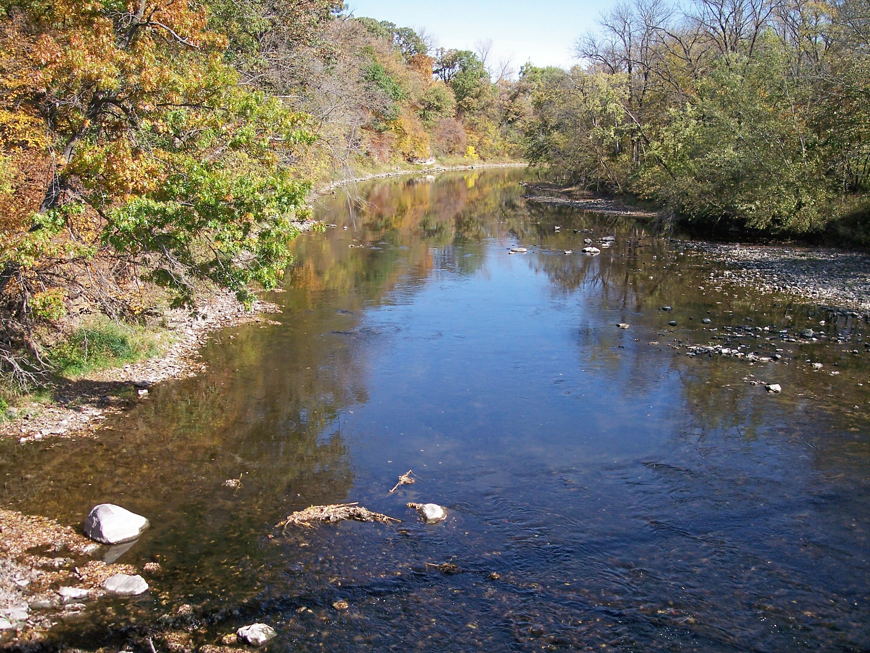 The Boone River in Hamilton County, Iowa, south of Webster City, Iowa, looking upstream from a bridge near Albrights canoe access